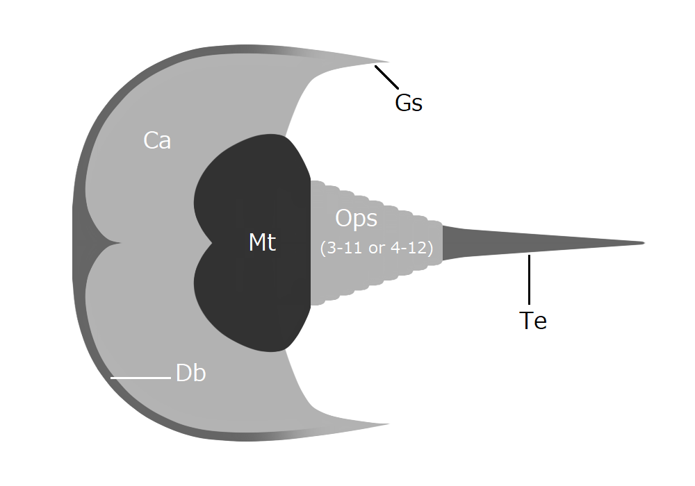 Ventral structures of Houia yueya, a devonian Euchelicerate. Appendage I-VI, opercula and segment boundaries of opisthosomal segments are not shown.